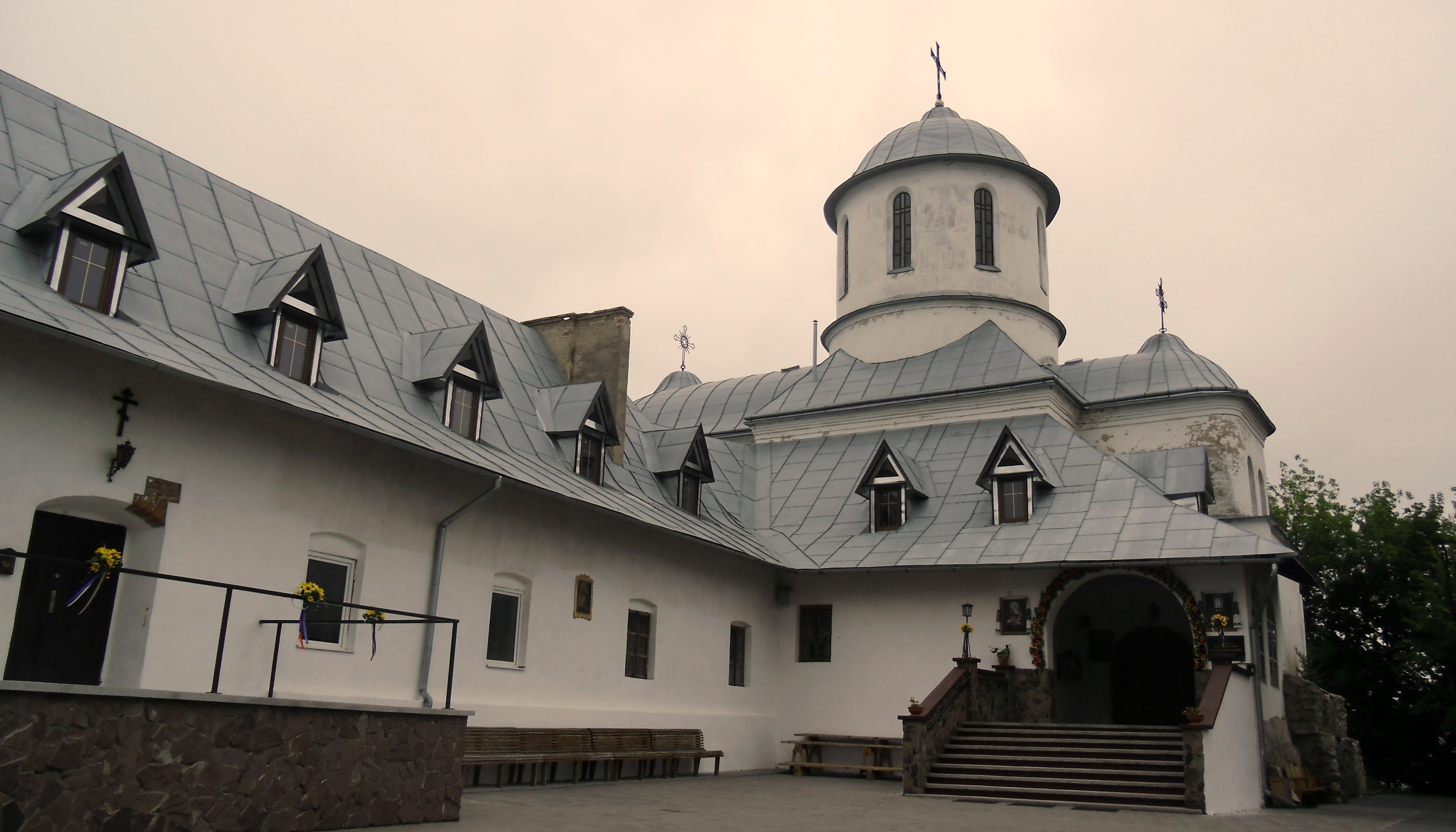 Church of the Transfiguration in Horodok, 15th century (the former Franciscan monastery).